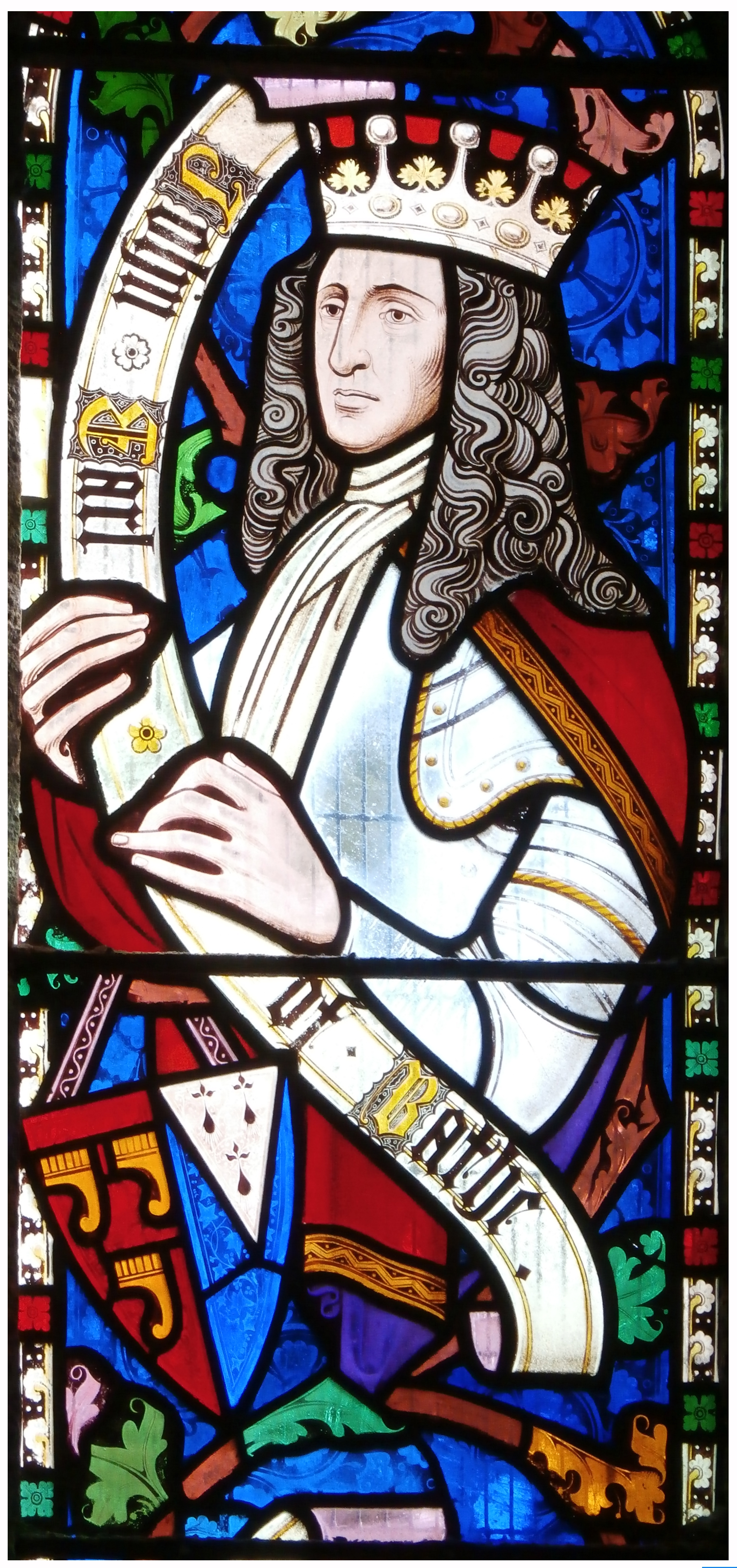 John Granville, 1st Earl of Bath (1628-1701), 1860 stained glass in Granville Chapel, Church of St James the Great, Kilkhampton, Cornwall, erected by his descendants George Granville Sutherland-Leveson-Gower, 2nd Duke of Sutherland KG (1786-1861); John Alexander Thynne, 4th Marquess of Bath (1831–1896); George Granville Francis Egerton, 2nd Earl of Ellesmere (1823–1862); Lord John Thynne (1798-1881), DD, Canon of Westminster, a younger son of Thomas Thynne, 2nd Marquess of Bath (1765-1837), KG.